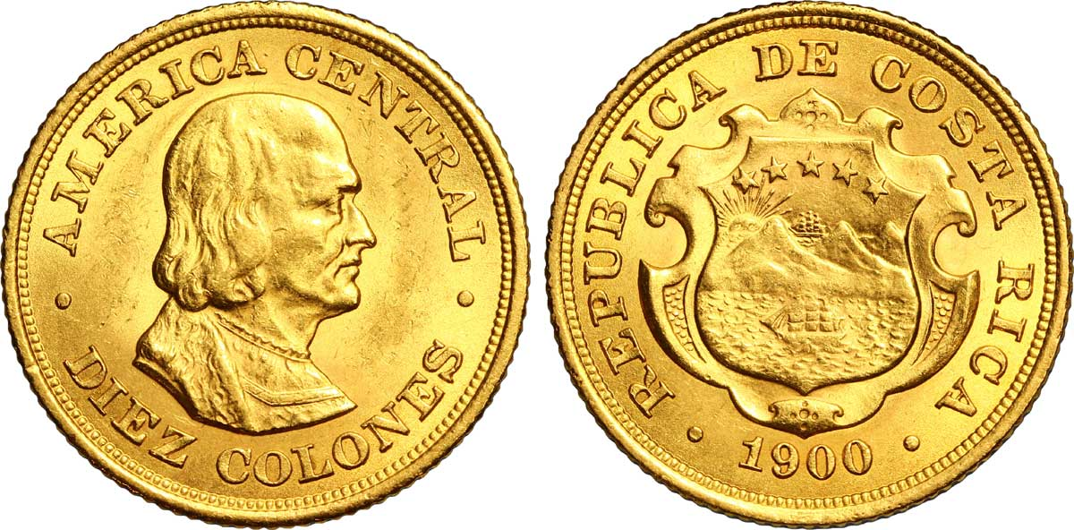 COSTA RICA, 10 Colones à l'effigie de Christophe Colomb, 1900